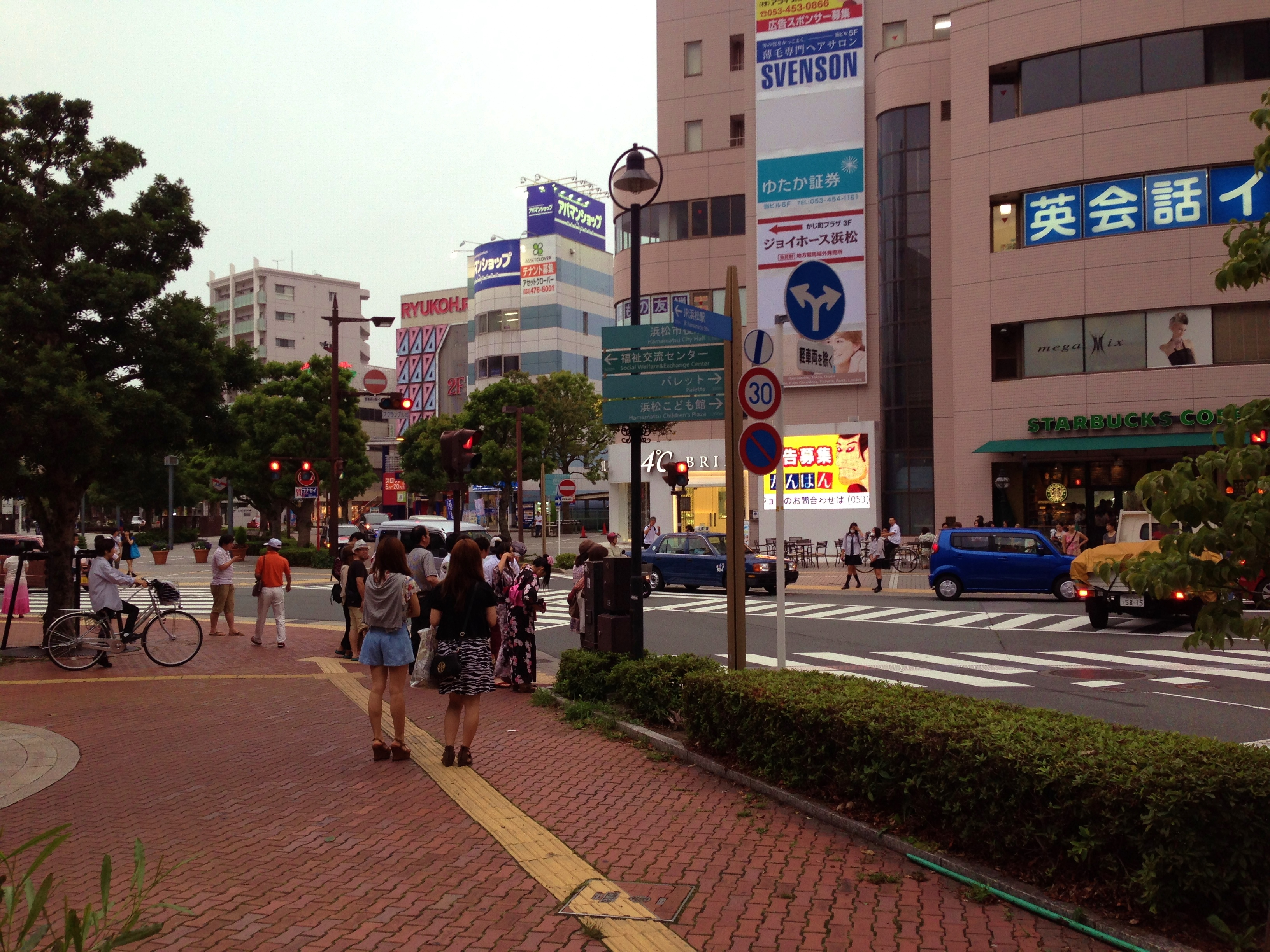 Hamamatsu